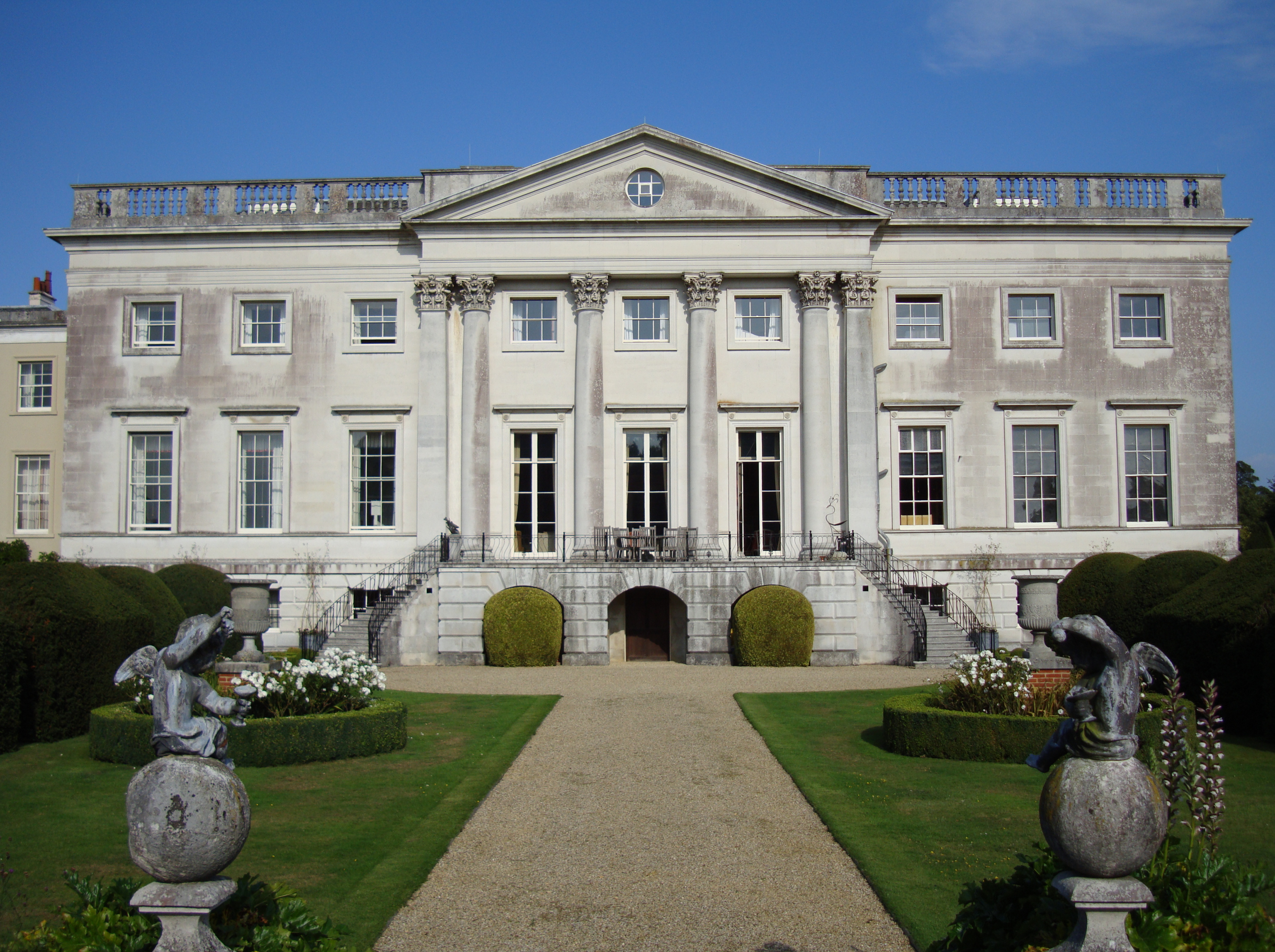 Photo taken by myself